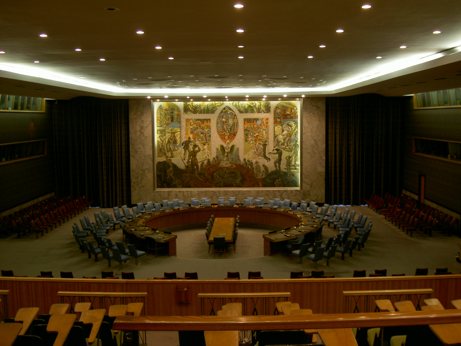 The United Nations Security Council Chamber in New York, also known as the Norwegian Room